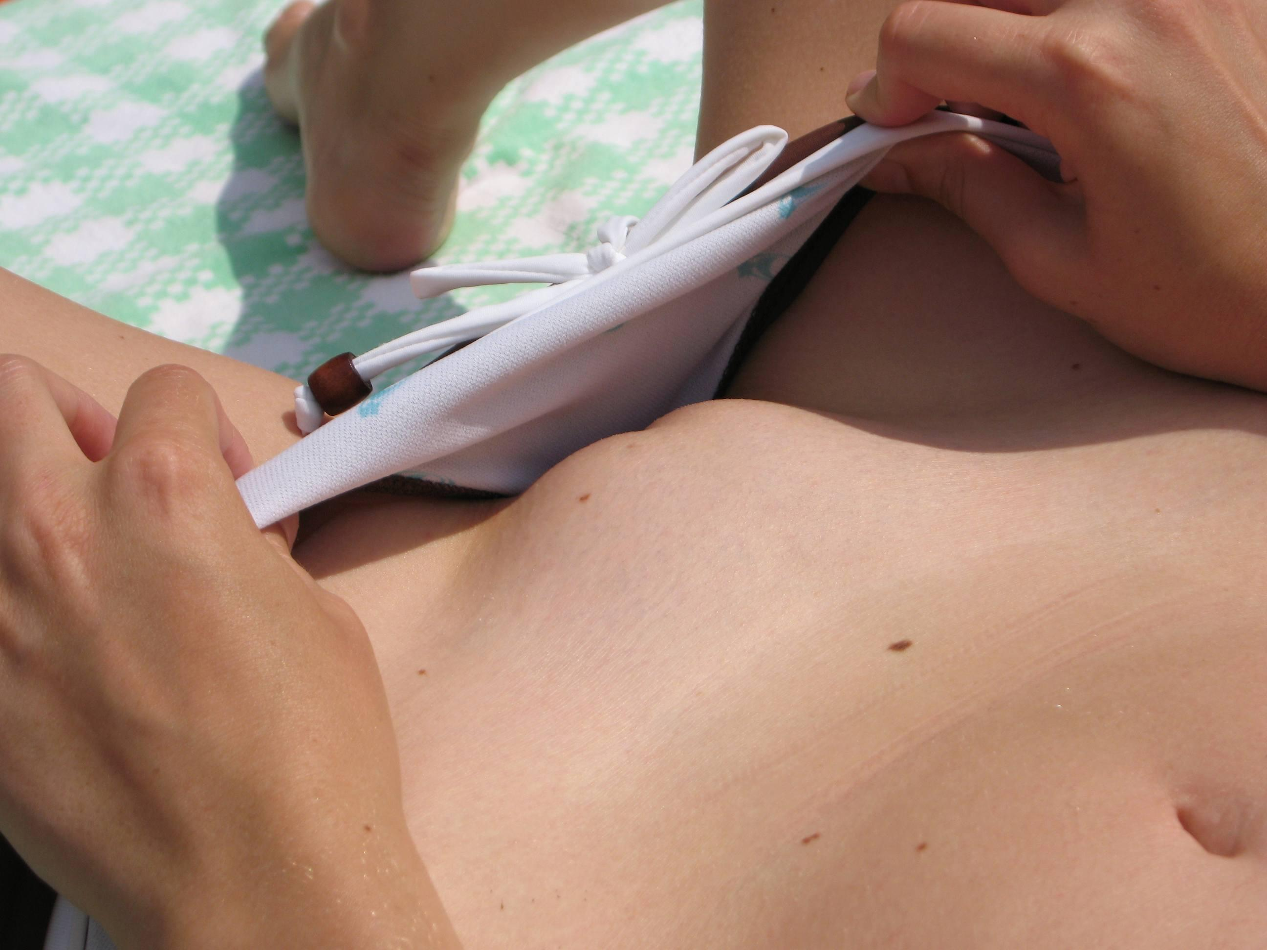 The mons pubis of a female, viewed from above.